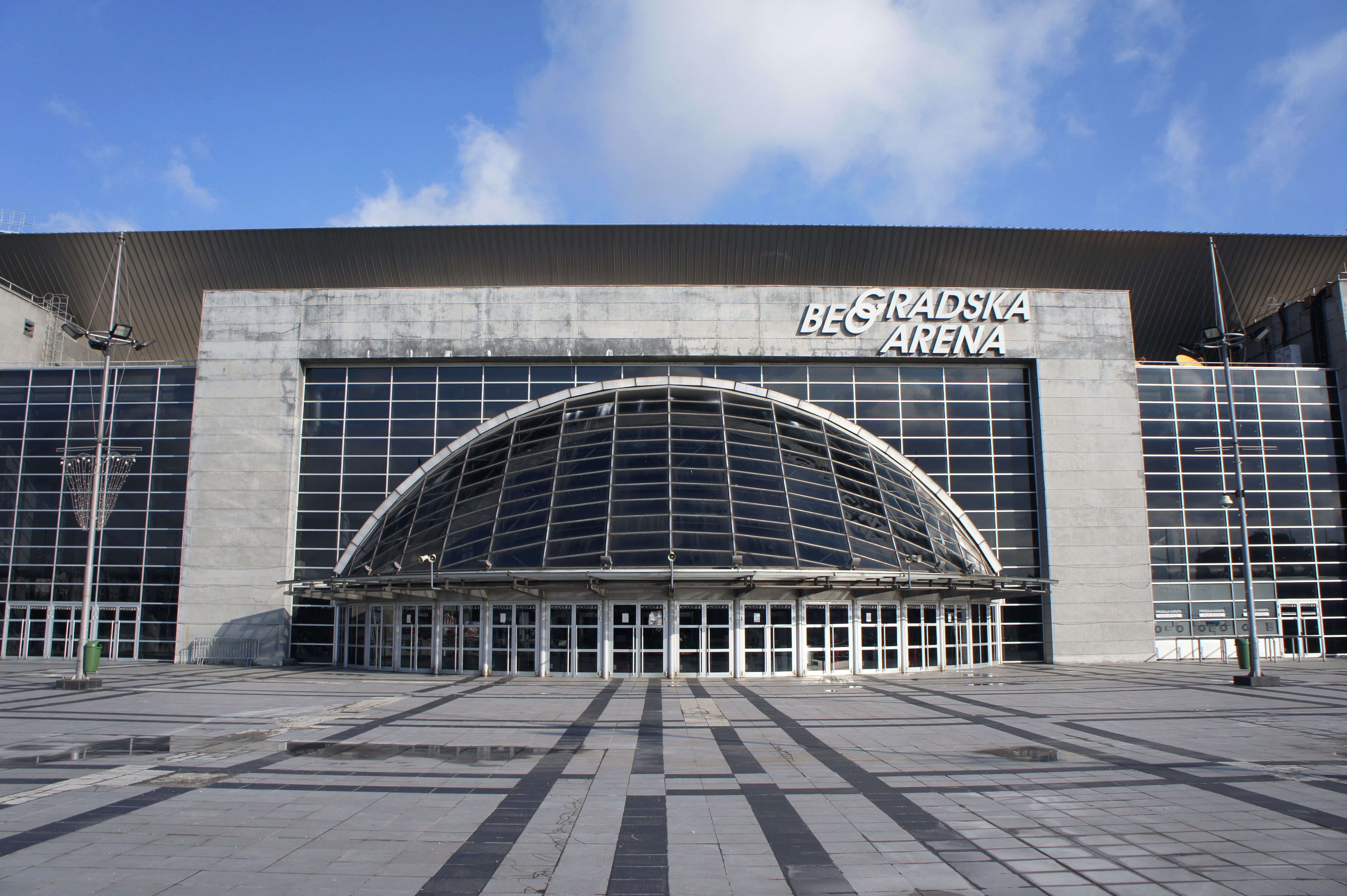 Belgrade Arena, western enterance. Serbia.